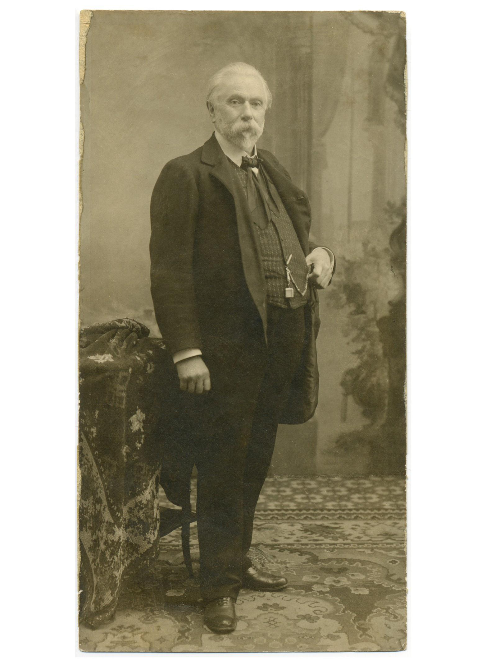 Clément Carbon (1835-1907)